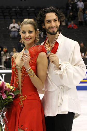 Tanith BELBIN and Benjamin AGOSTO (USA) during the medals ceremony at the 2009 World Figure Skating Championships.